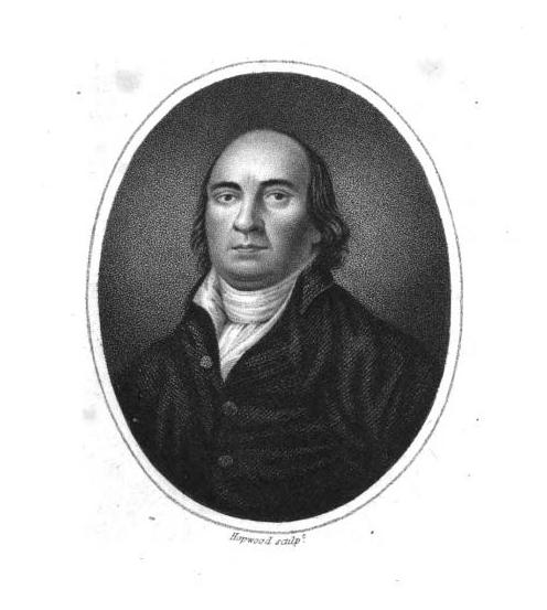 Portrait of William Richards (1749–1818), Welsh Baptist minister.